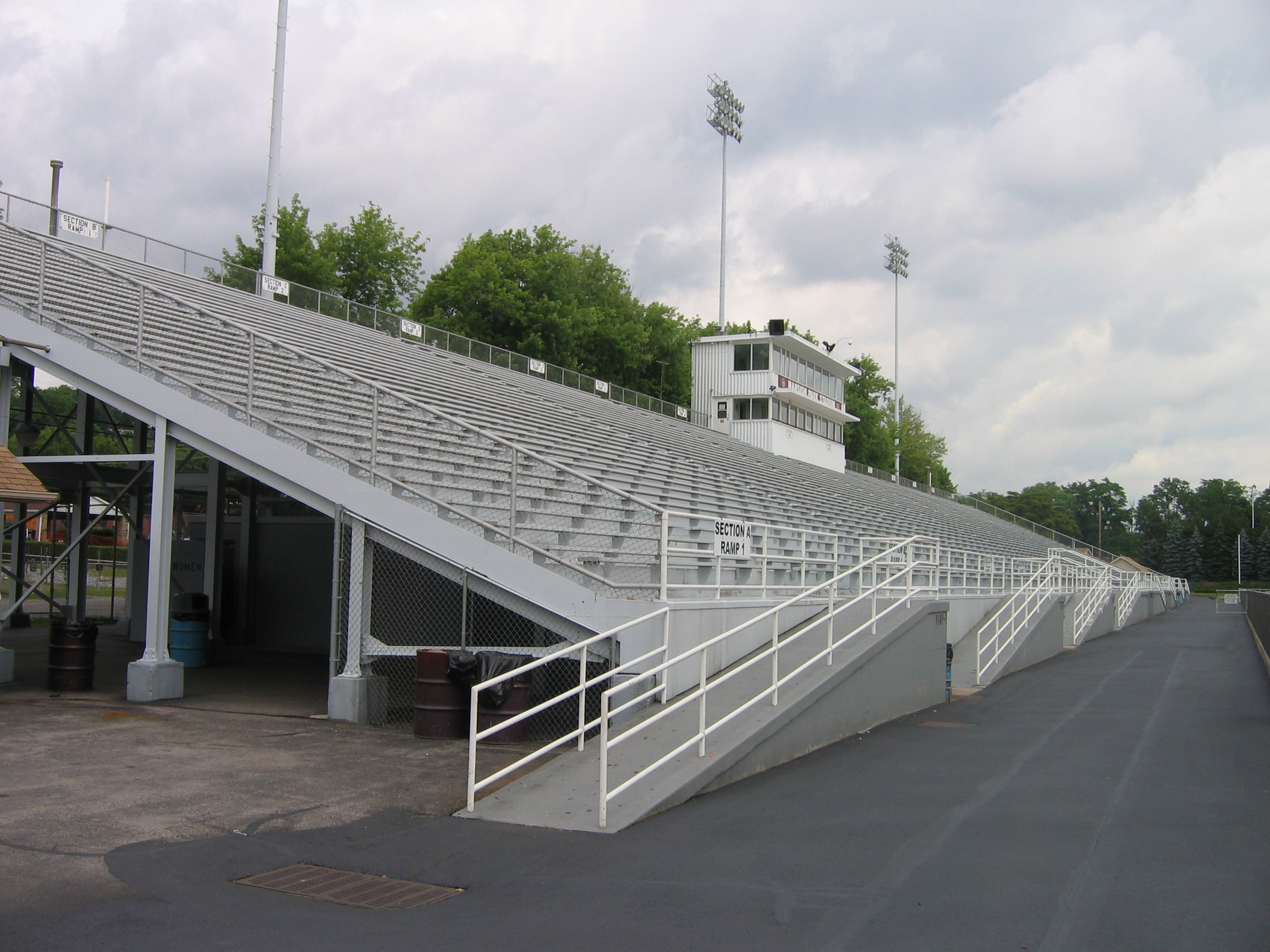 Football & Basketball Facilities Altoona HS Stadium